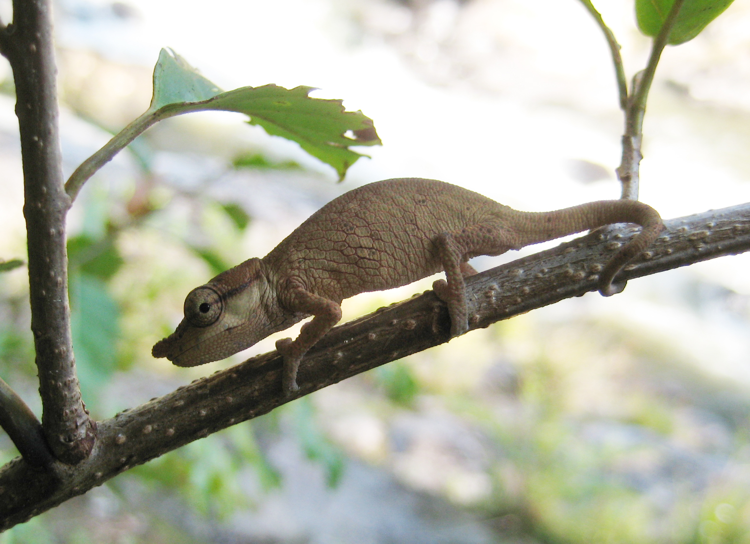 Chameleon - Calumma nasutum